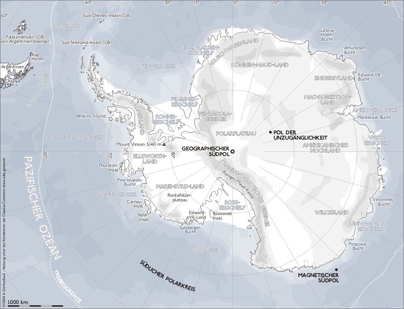 Used on Vorlage:Positionskarte Antarktis